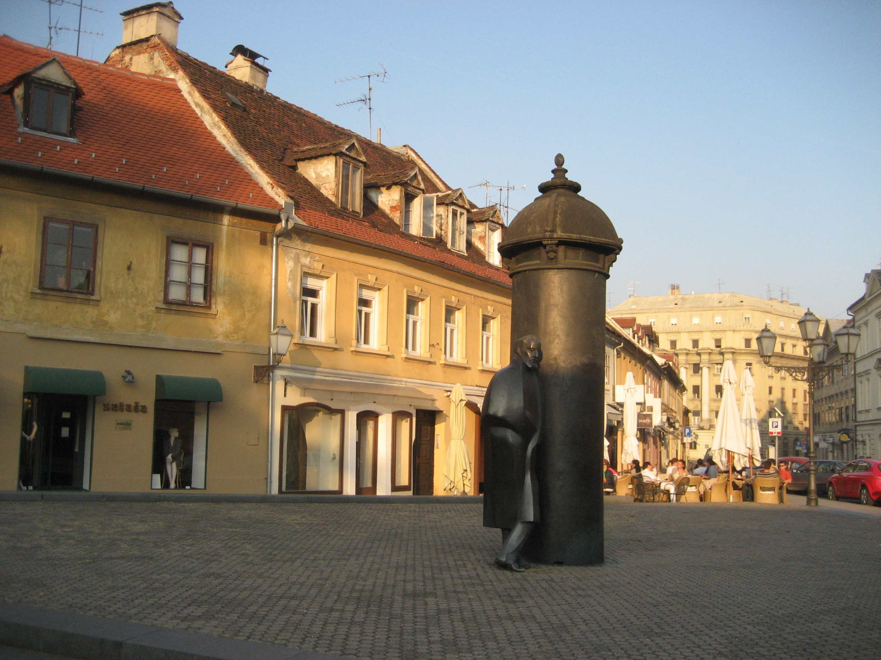 Vlaska Ulica, Senoa, Zagreb